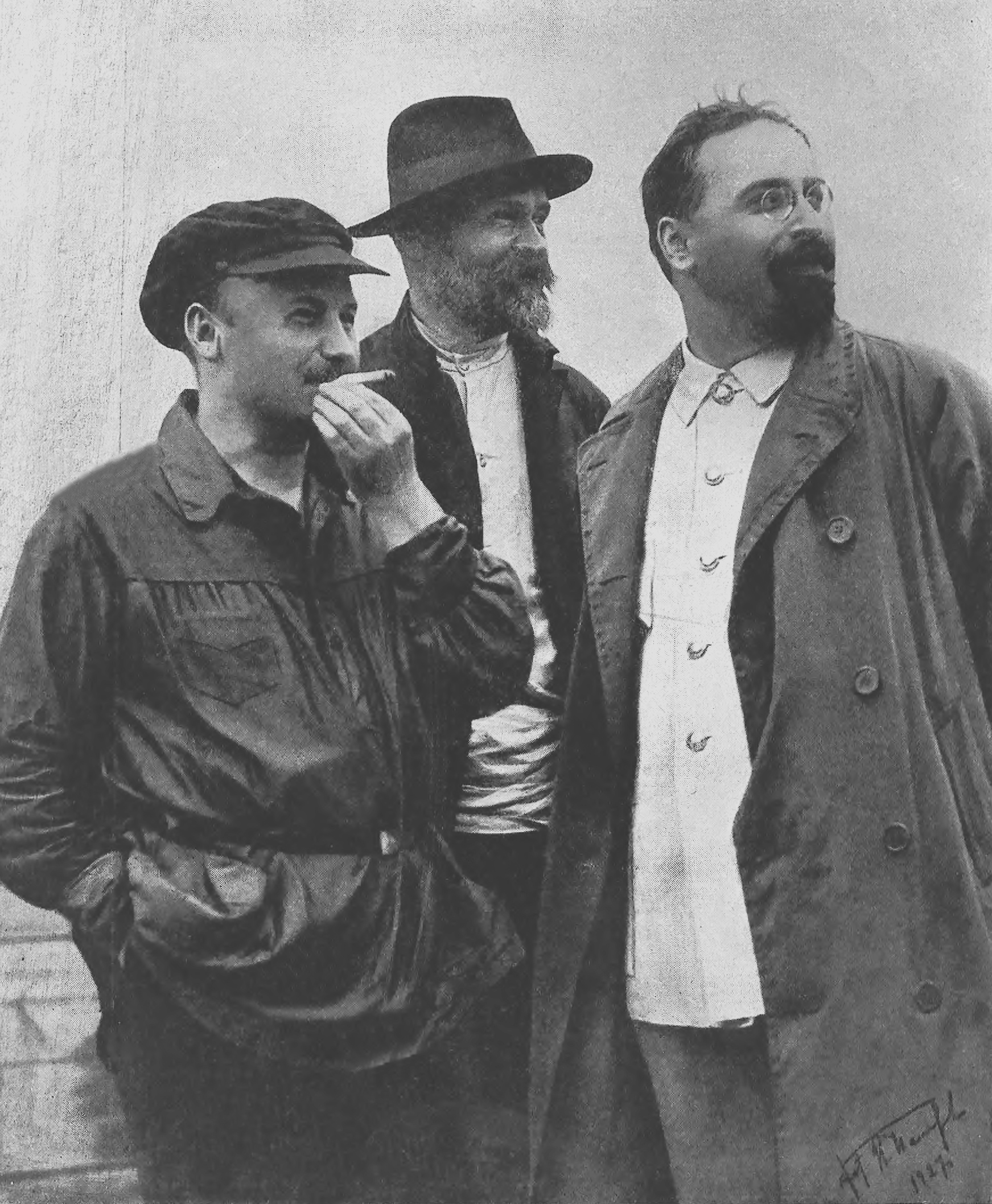 Old Bolsheviks: Nikolai Bukharin, the editor of Pravda and Projector. Ivan Skvortsov-Stepanov, the First People's Commissar (Minister) for Finance. Lev Karakhan, Deputy People's Commissar (Deputy Minister) for Foreign Affairs, the first Soviet Ambassador to China. Context: in one year after the photo’s publication, Joseph Stalin became de-facto dictator of the country. The lucky among three is Ivan Skvortsov-Stepanov since he had died from typhoid fever in Oct 1928 and buried in the Kremlin Wall Necropolis. Nikolai Bukharin confessed as “the enemy of the people” during Trial of Twenty One and executed in 1938. Lev Karakhan sentenced to death by the Military Collegium of the Supreme Tribunal in 1937.